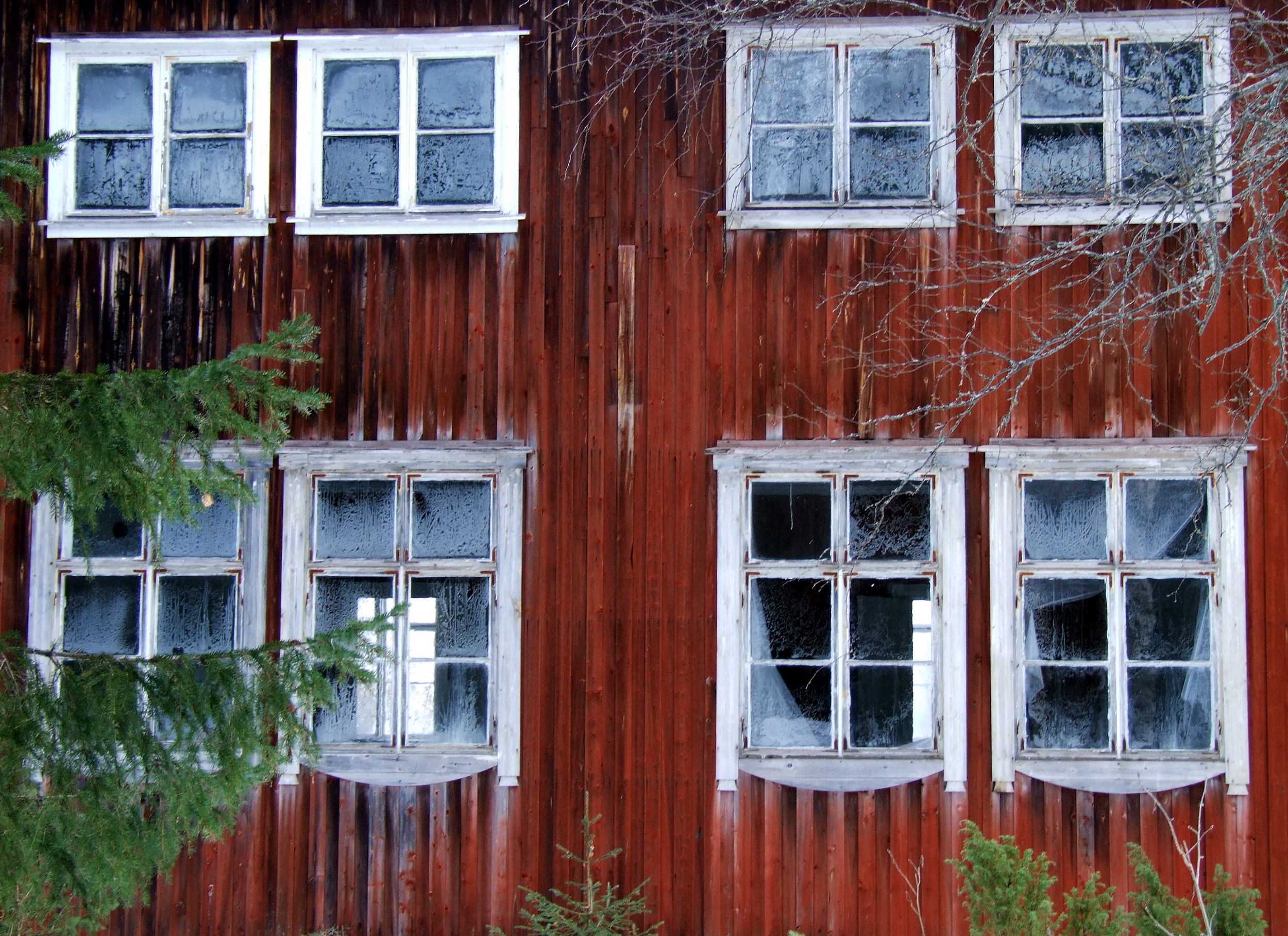 Frozen windows of a house in the old sawmill community of Varjakansaari, Oulunsalo, Finland. The community was built up in the year 1900 and abandoned in 1928. The buildings were designed by architect Harald Andersin.